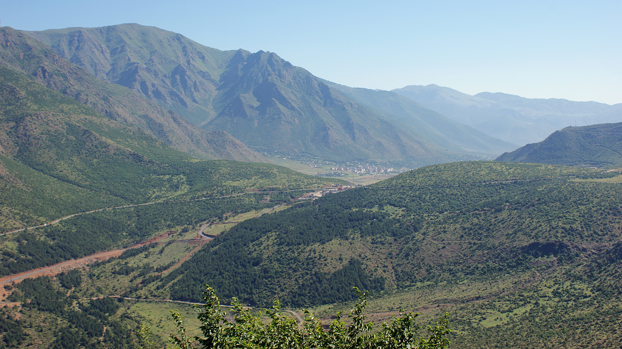 Mountain pass Qafa e Buallit (842 m) in Albania. Town of Bulqizë in the back.